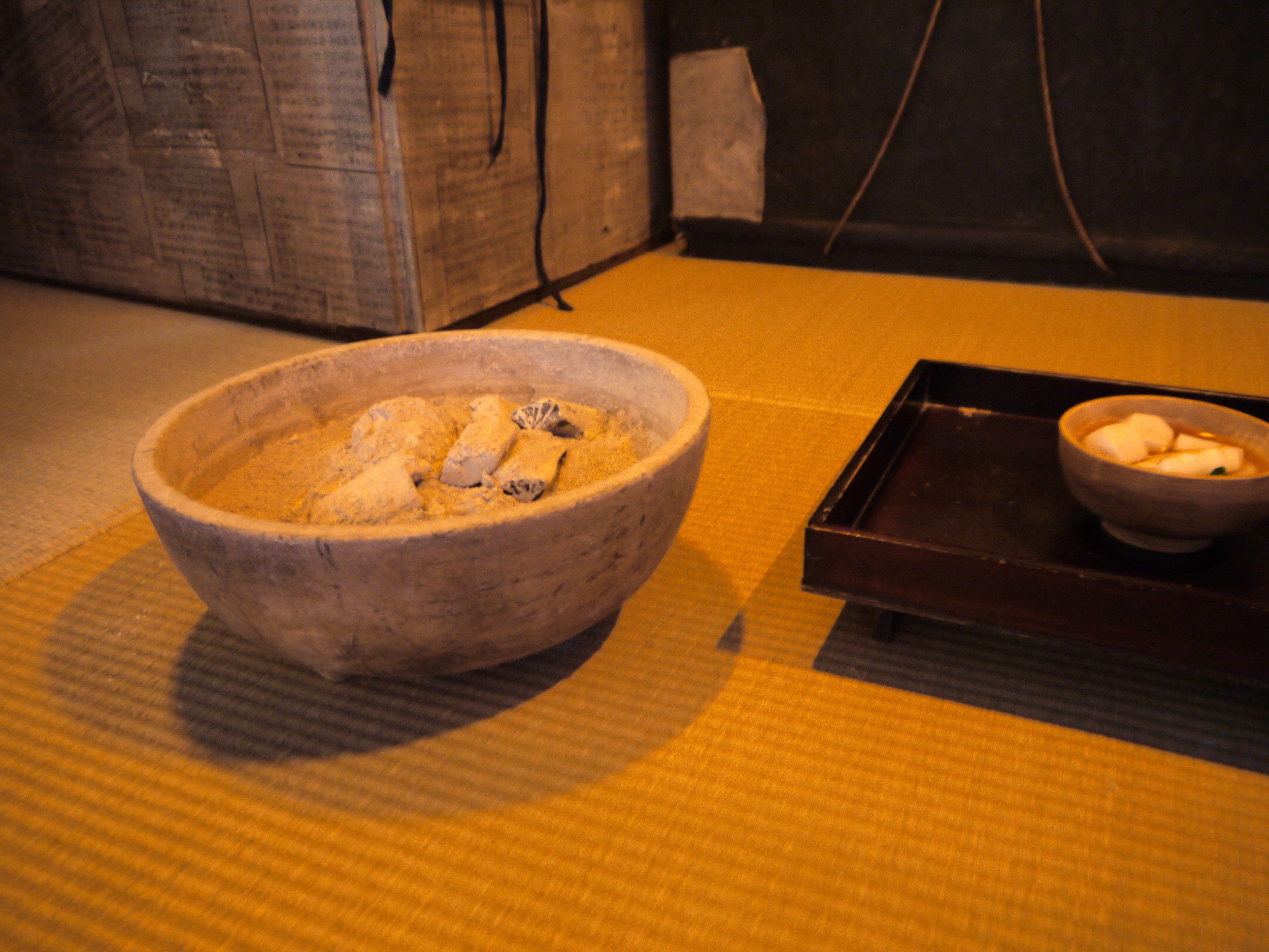 Information